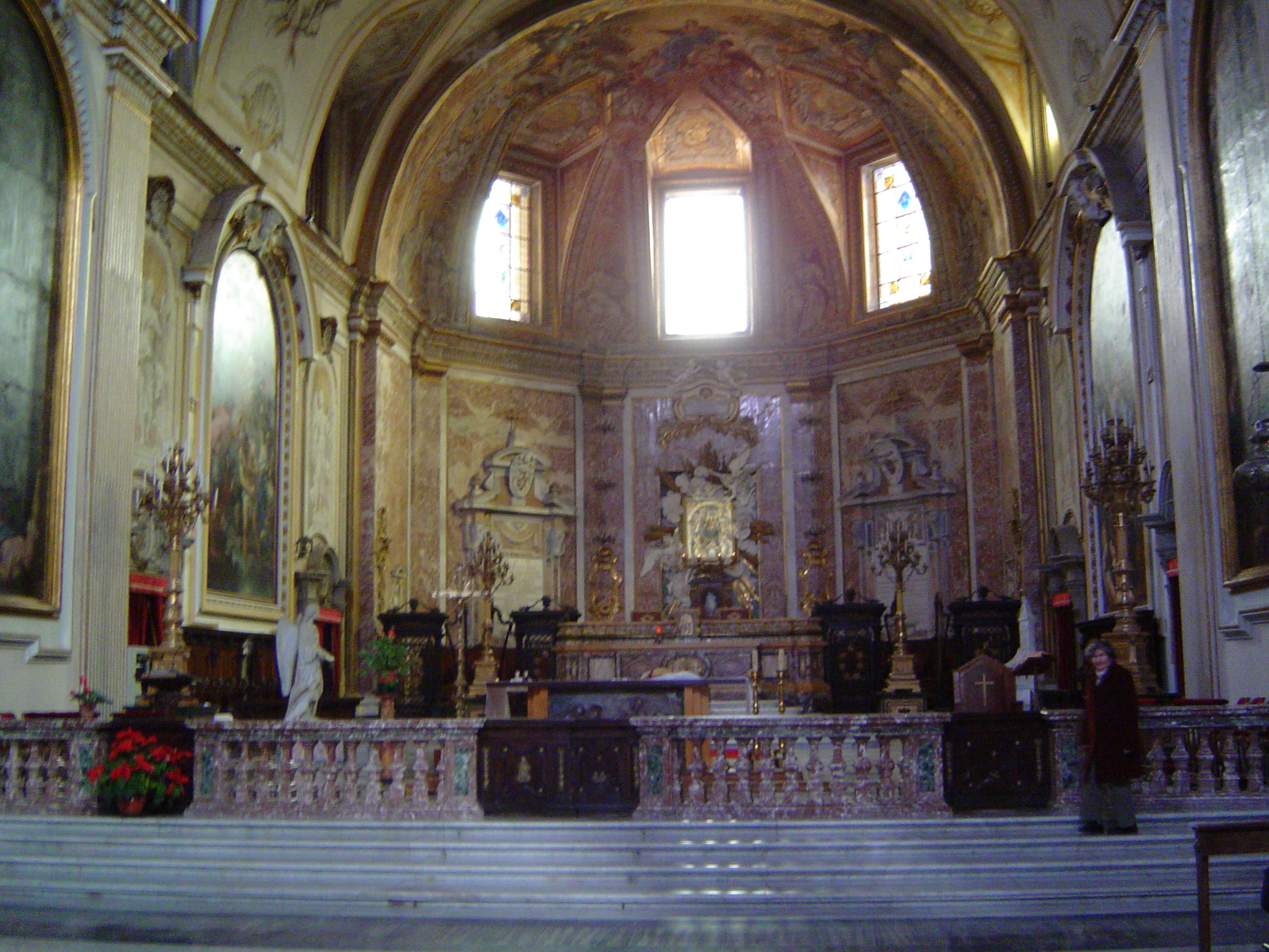 Santa Maria degli Angeli, Rome, Italy: Tribune & Altar. Made by Joris on 5-01-2006